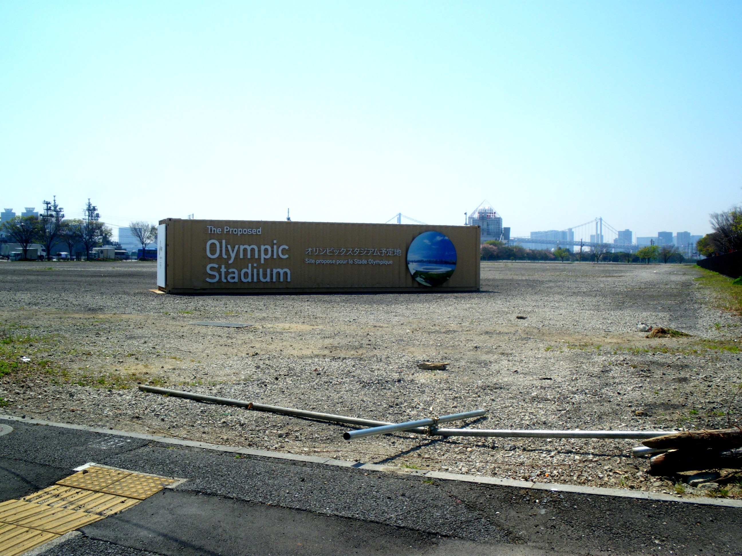 The proposed olympic stadium at Harumi,Chuo,Tokyo.